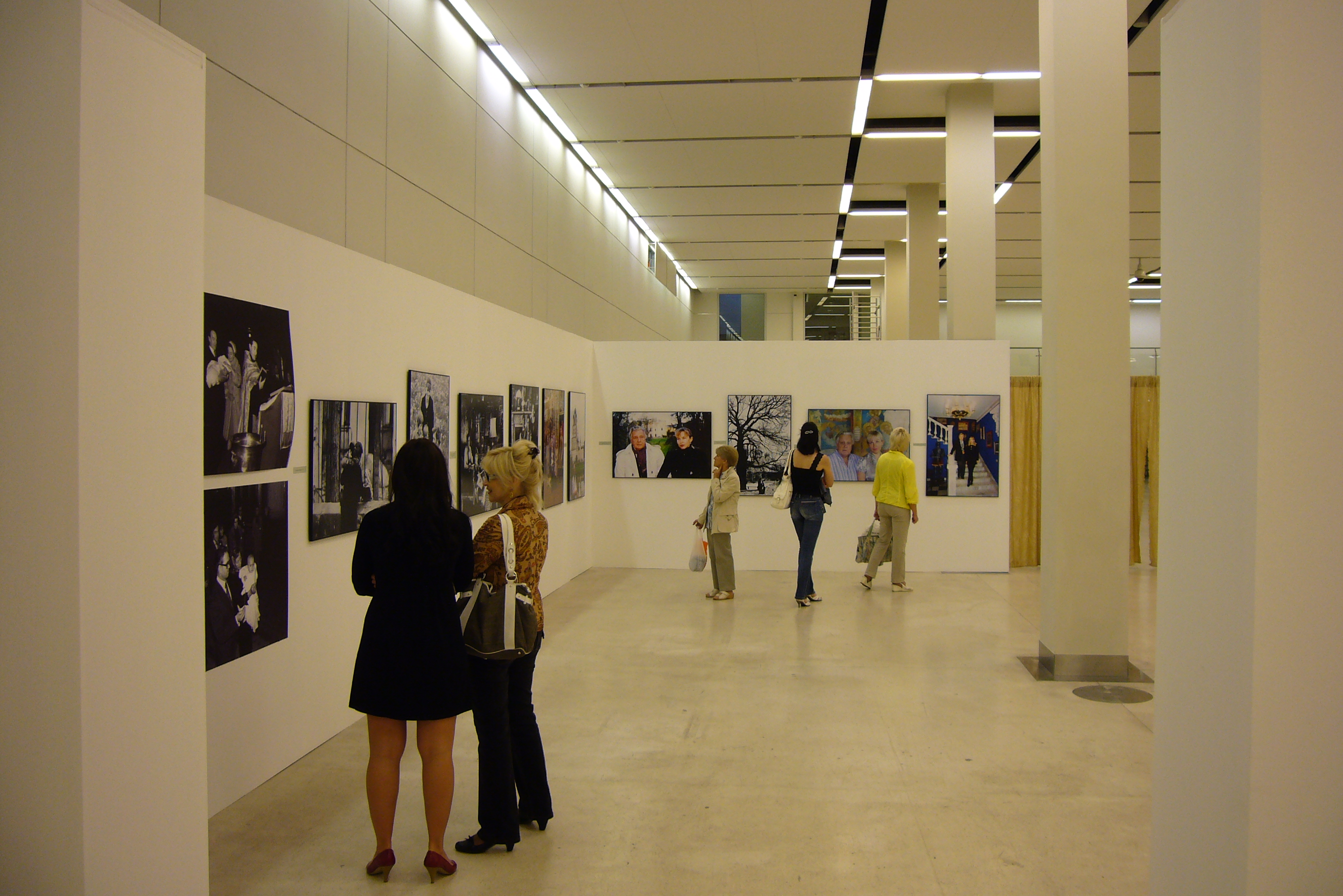 At a personal art exhibition of Ilya Glazunov in the Manezh, Moscow, May 2010.